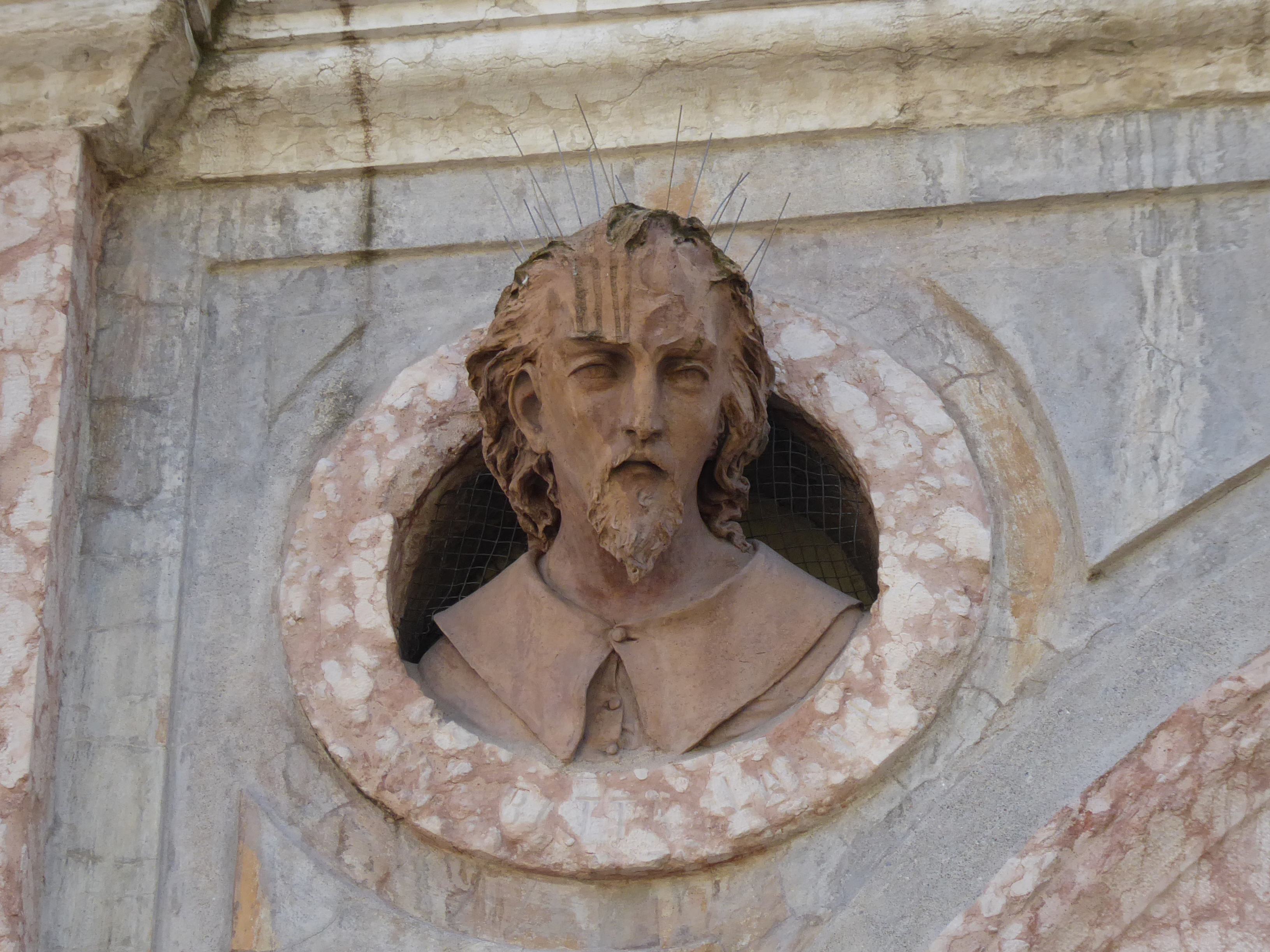 Bust of Giovanni Battista Lampi on the facade of Palazzo Ranzi, in Trento, by Andrea Malfatti